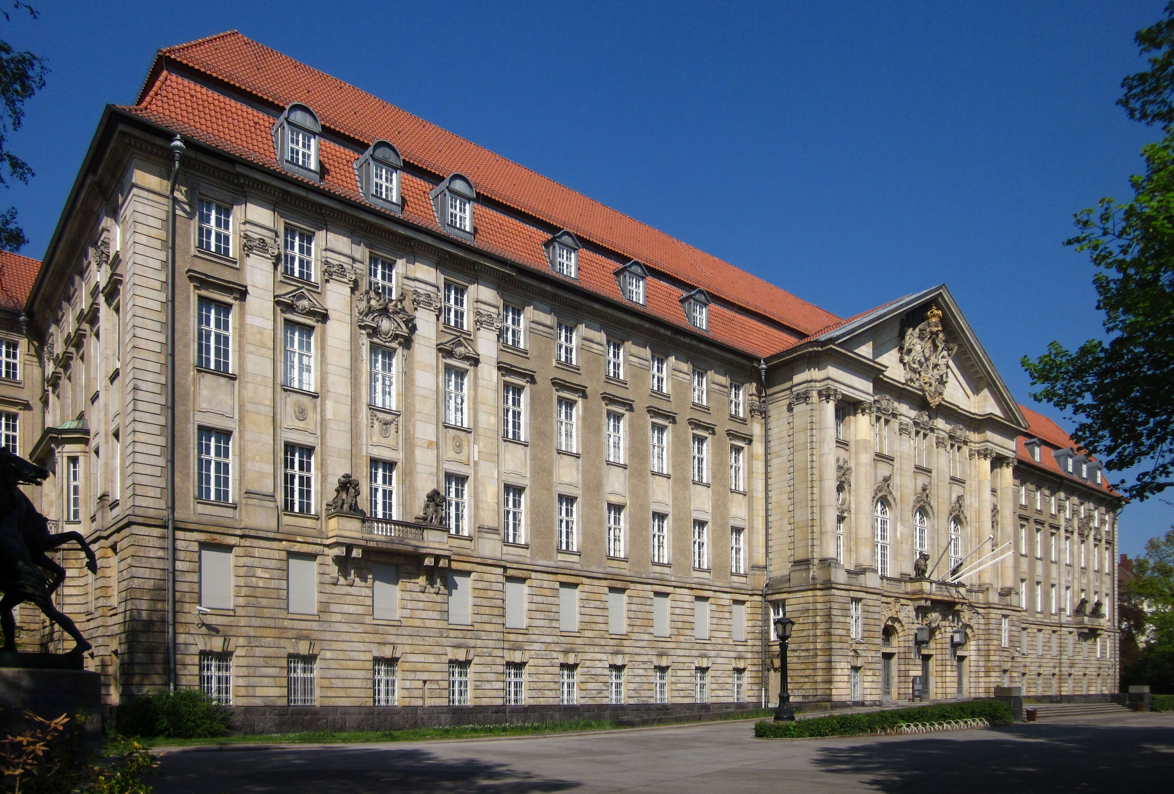 The Sumpreme Court building at Kleistpark in Berlin-Schöneberg, seat of the Supreme Court of the State of Berlin. It was built from 1909 to 1913 to a design by the architects Paul Thoemer, Rudolf Mönnich und C. Vohl. After WWII, it served as seat of the Allied Control Council. The building has been designated as a historic landmark.